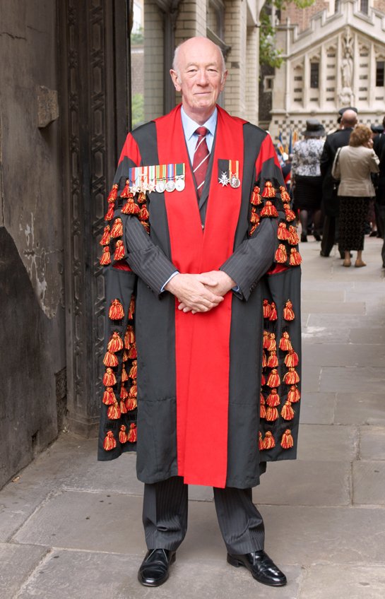 John Norris – Beadle to the Worshipful Company of Firefighters